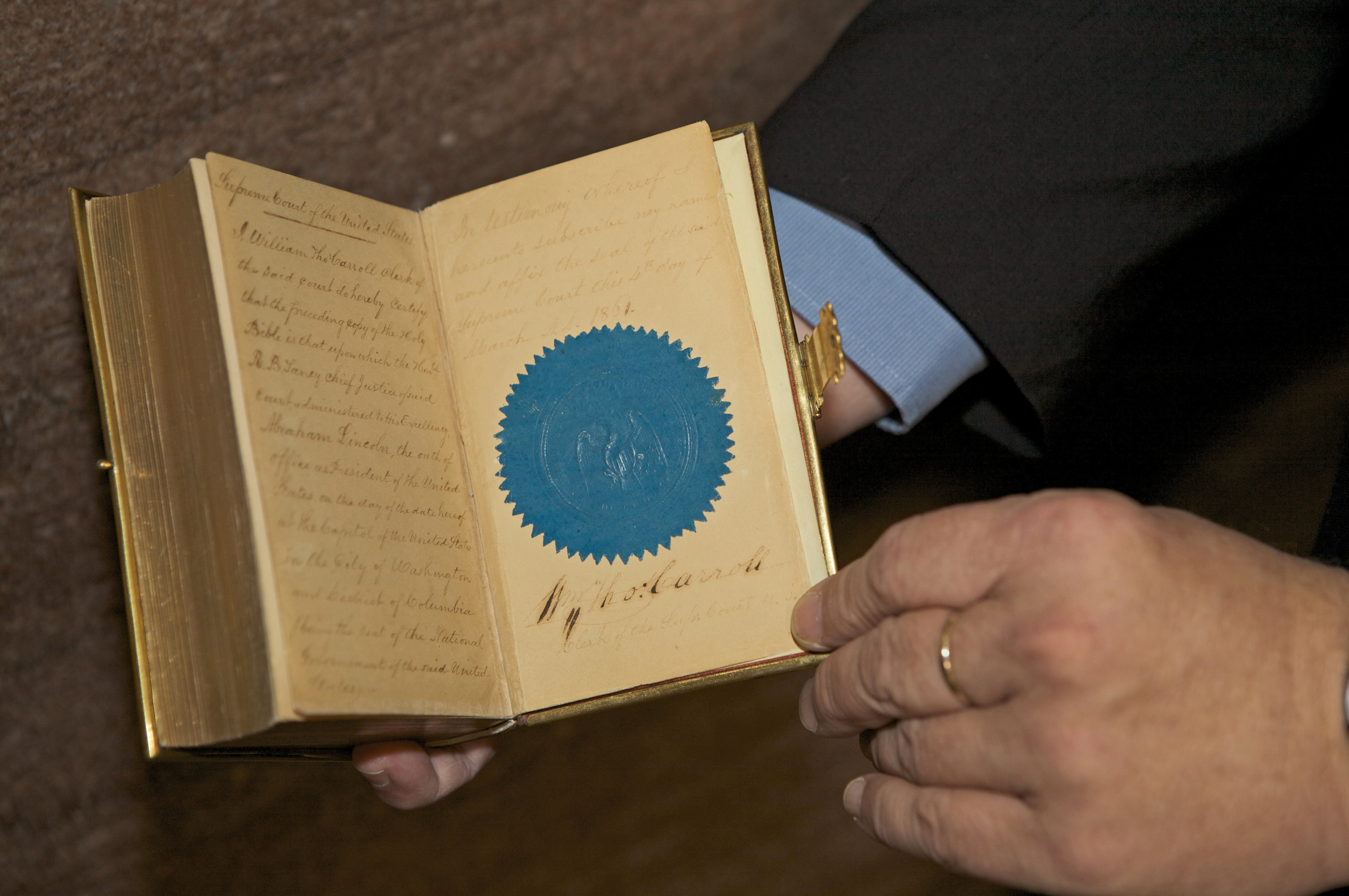 The bible used by Abraham Lincoln for his oath of office during his first inauguration in 1861, turned to the page signed by the clerk of the Supreme Court, William Thomas Carroll, attesting that the book was used for Lincoln's oath of office, and impressed with the seal of the Supreme Court.